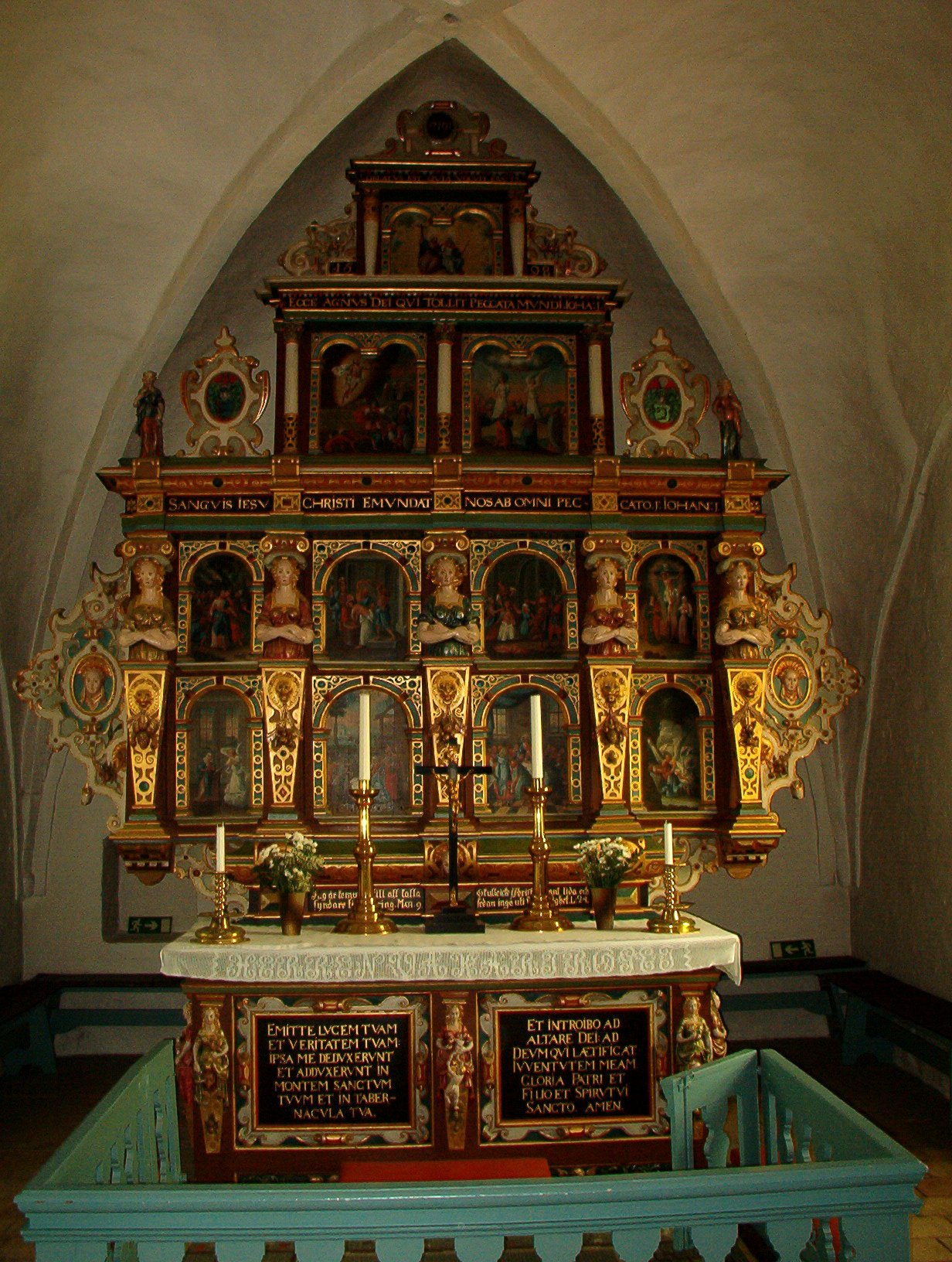 Interior: the altar piece It looks old because all the text is in Latin, as opposed to Swedish.